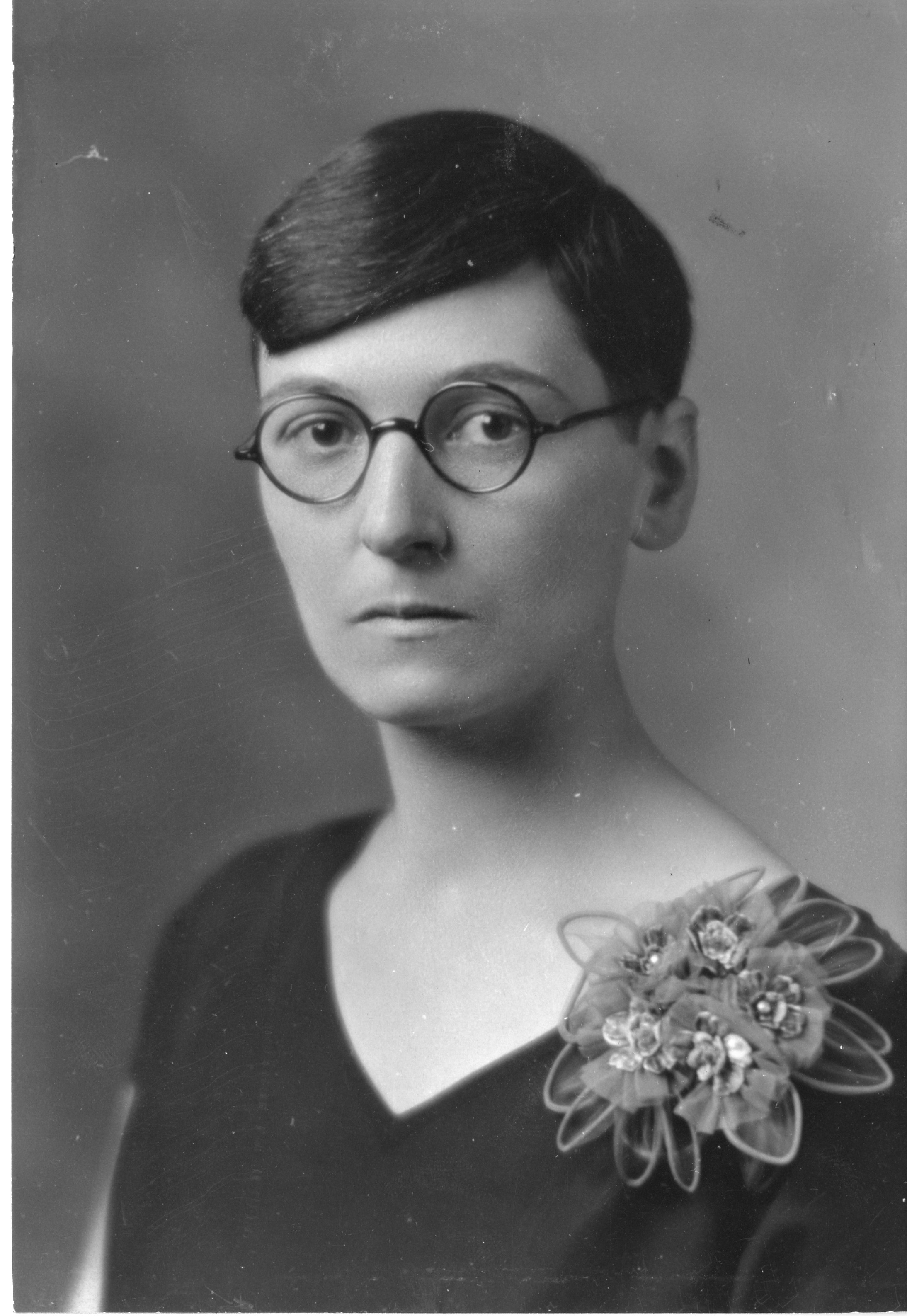 Description: Mildred Adams Fenton (b. 1888) trained in paleontology and geology at the University of Iowa. She coauthored dozens of general science books with her husband, Carroll Lane Fenton, including Records of Evolution (1924), Land We Live On (1944), and Worlds in the Sky (1963). Creator/Photographer: Unidentified photographer Medium: Black and white photographic print Persistent URL: [1] Repository: Smithsonian Institution Archives Collection: Science Service Records, 1902-1965 (Record Unit 7091) - Science Service, now the Society for Science & the Public, was a news organization founded in 1921 to promote the dissemination of scientific and technical information. Although initially intended as a news service, Science Service produced an extensive array of news features, radio programs, motion pictures, phonograph records, and demonstration kits and it also engaged in various educational, translation, and research activities. Accession number: SIA2008-0567